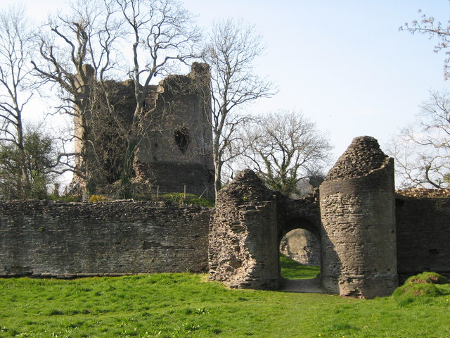 Longtown Castle The gatehouse, outer wall and keep of Longtown Castle.